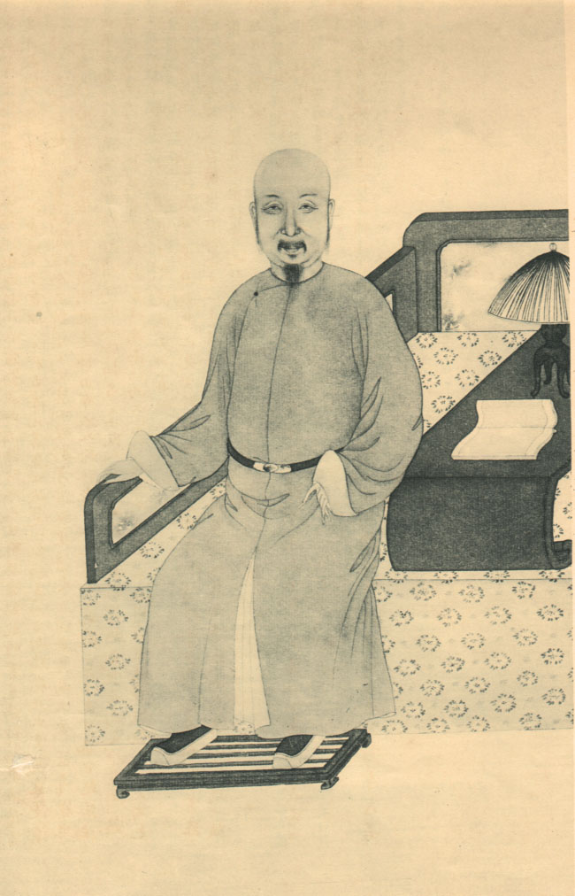 Tang Bin, scholar and politician of the Qing Dynasty.